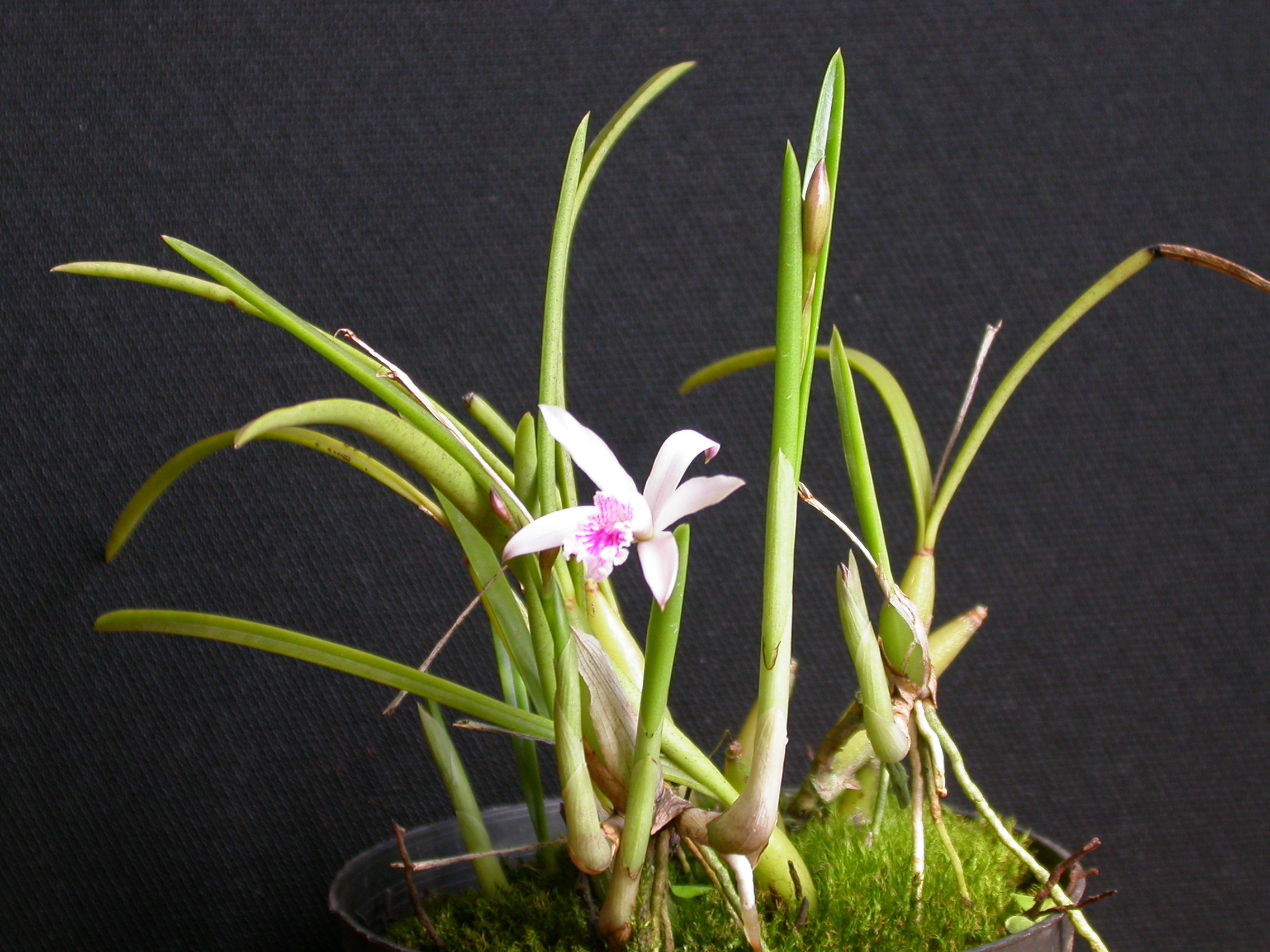 Microlaelia lundii